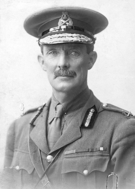 Studio portrait of Major General Sir Edward Walter Clervaux Chaytor KCMG KCVO CB Commanding Officer of the Anzac Mounted Division, previously also Commanding Officer of the New Zealand Mounted Rifles Brigade.